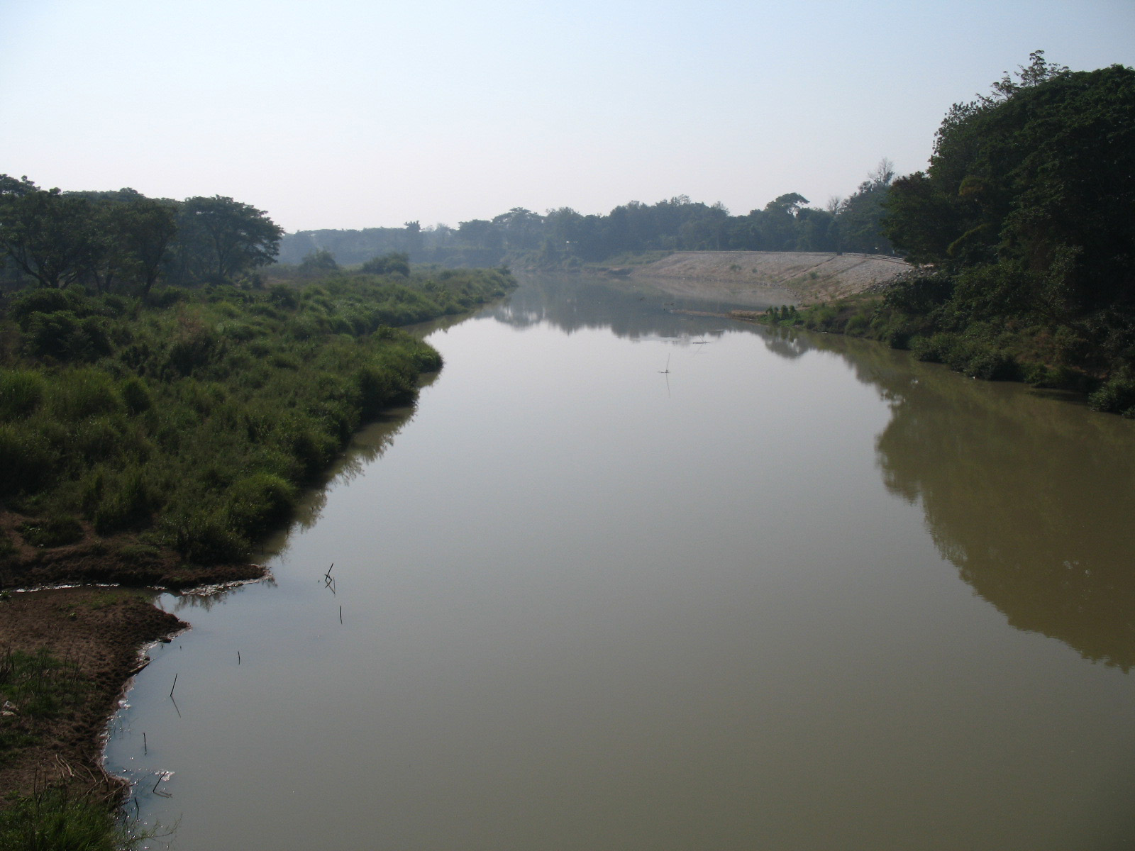 The Yom River, the one of the Chao Phraya River contributaries, took from a bridge in Amphoe Mueang Phrae, Phrae Province.